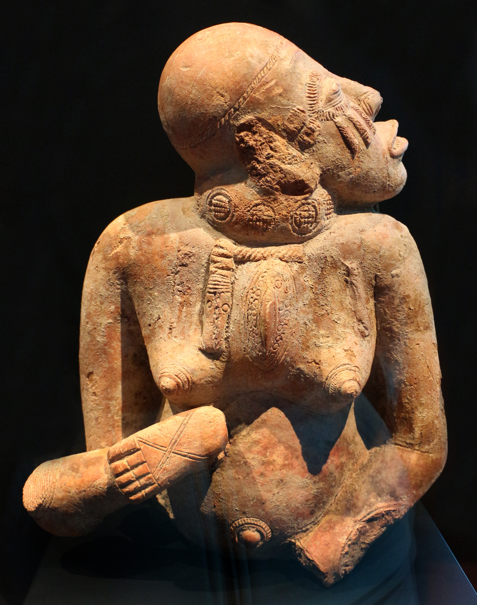 African art in the Musée du quai Branly